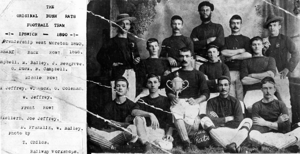 Original Bush Rats Football Team, Ipswich, 1890 Premiership West Moreton 1893, Brisbane 1895. Back row - ? Campbell, M. Bailey, J. Besgrove, G. Duck, B. Campbell. Middle row - ? Jeffrey, W. Duck, O. Coleman, W. Jeffrey. Front row - ? Skellern, Joe Jeffrey, D. Franklin, W. Bailey. (Description supplied with photograph.) Possibly workers from the Railway Workshops, Ipswich.